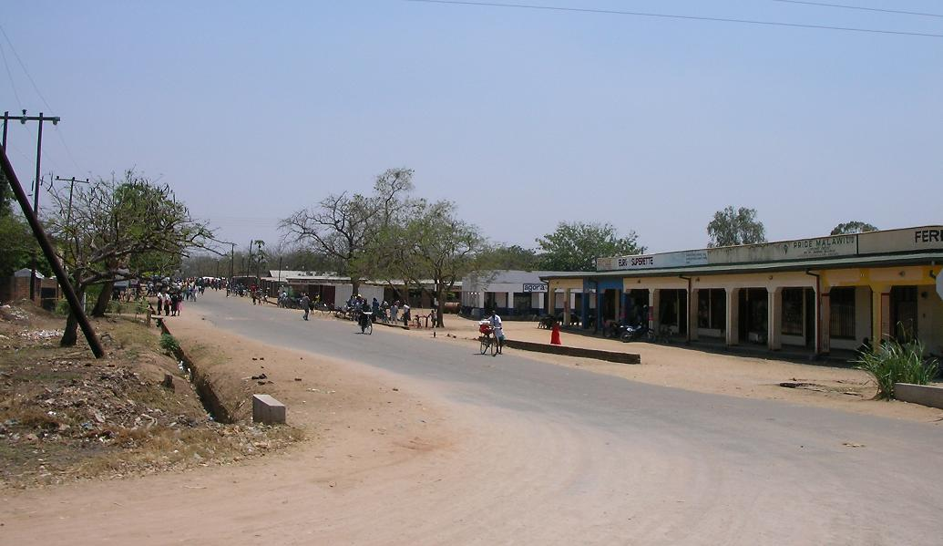 entering town of Liwonde, Malawi from the southeast (coming from Liwonde National Park's southern gate). Camera is pointing west.